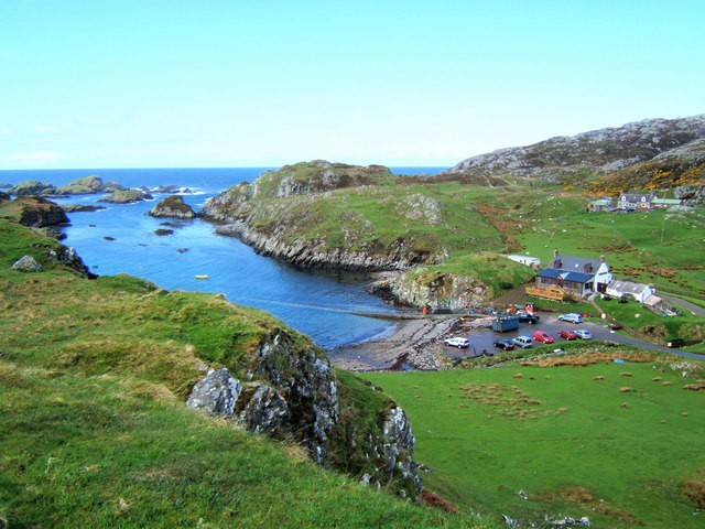 Tarbet The place to get the ferry to Handa, or a lobster if you time it right!